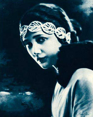 Publicity photo of Jetta Goudal from Stars of the Photoplay